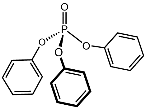 structure of triphenylphosphate